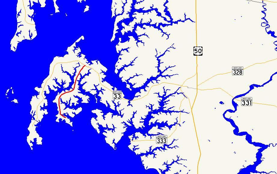 Map of Maryland Route 579